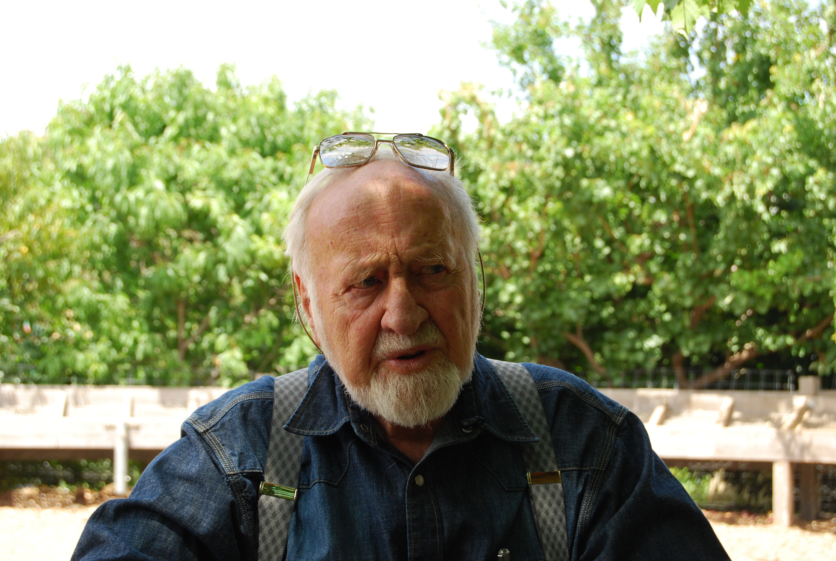 Bill Mollison